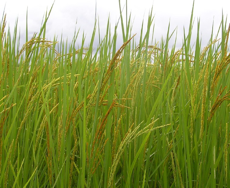 Duman[1]